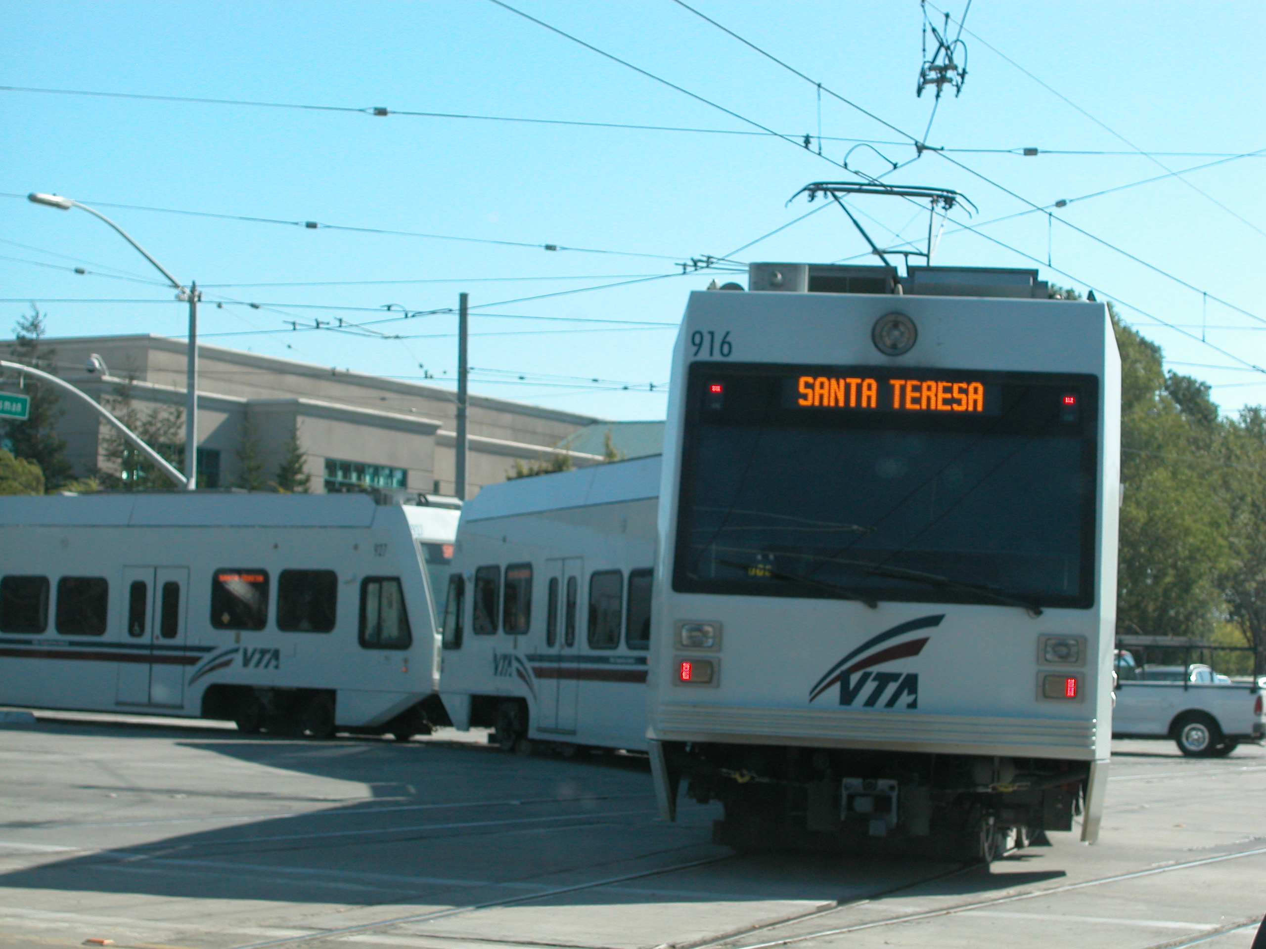 Front/Back of VTA Light Rail